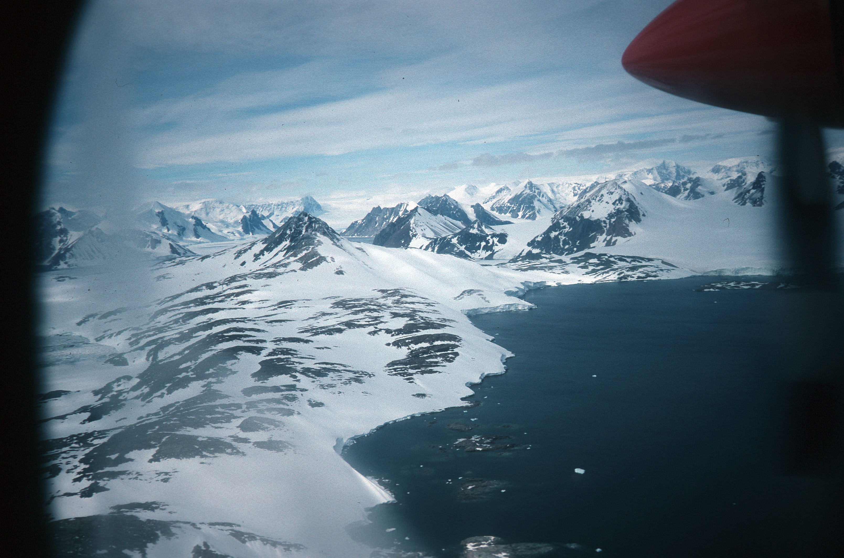 Horeseshoe Island - Lystad Bay (from Twin Otter)